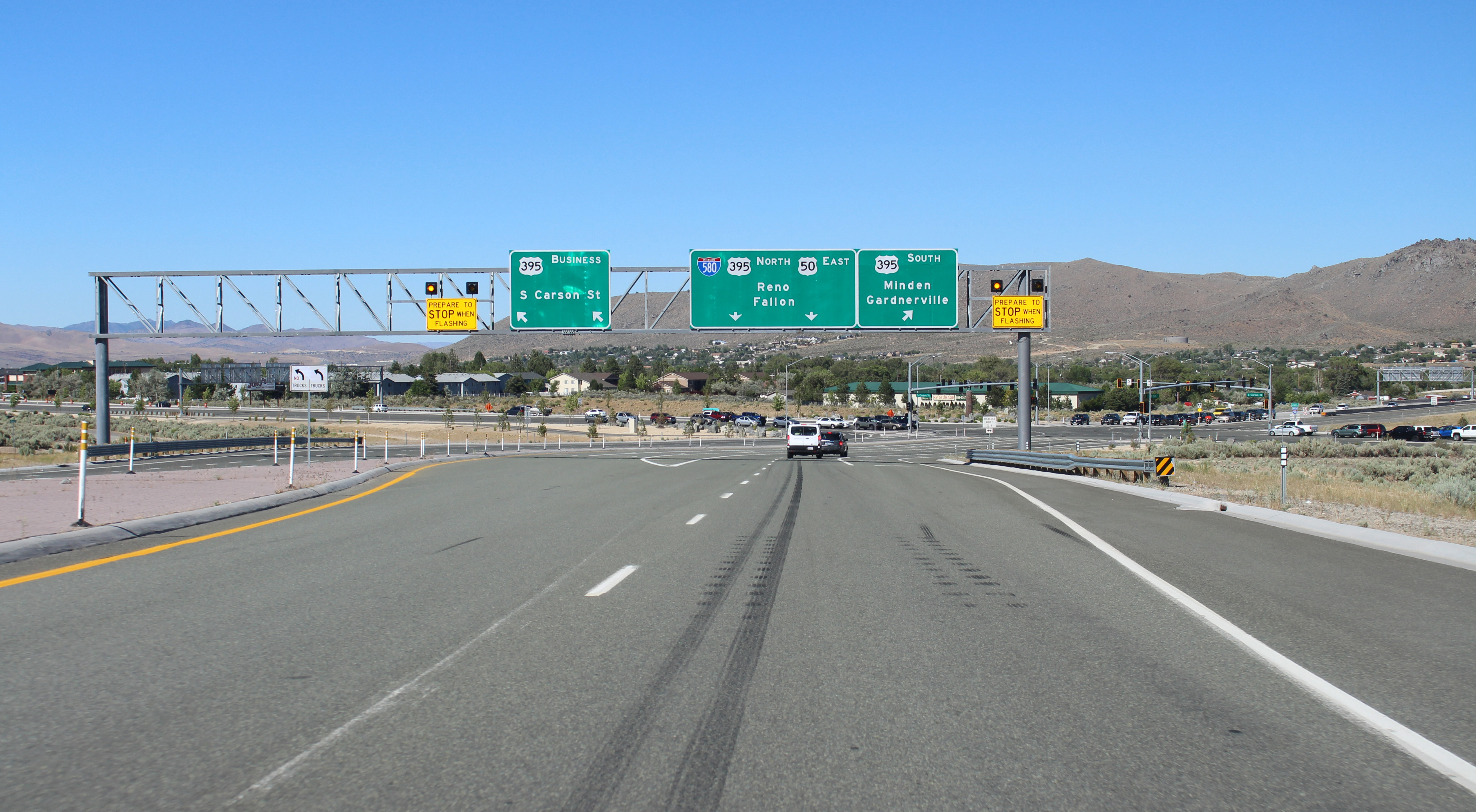 The at-grade intersection of U.S. 395, U.S. 50 and Interstate 580 (Nevada) in Carson City, Nevada. This is the current southern end of Interstate 580 in Nevada. Photographed by user Coolcaesar on July 4, 2020.